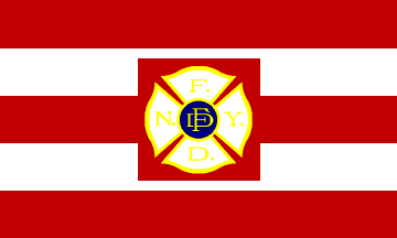 Flag of the New York City Fire Department